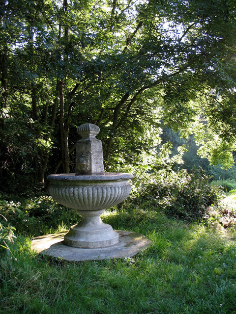 Disused Drinking Fountain The water has long since ceased to flow from this drinking fountain dedicated to the memory of Walter Field, Associate of the Royal Watercolour Society.